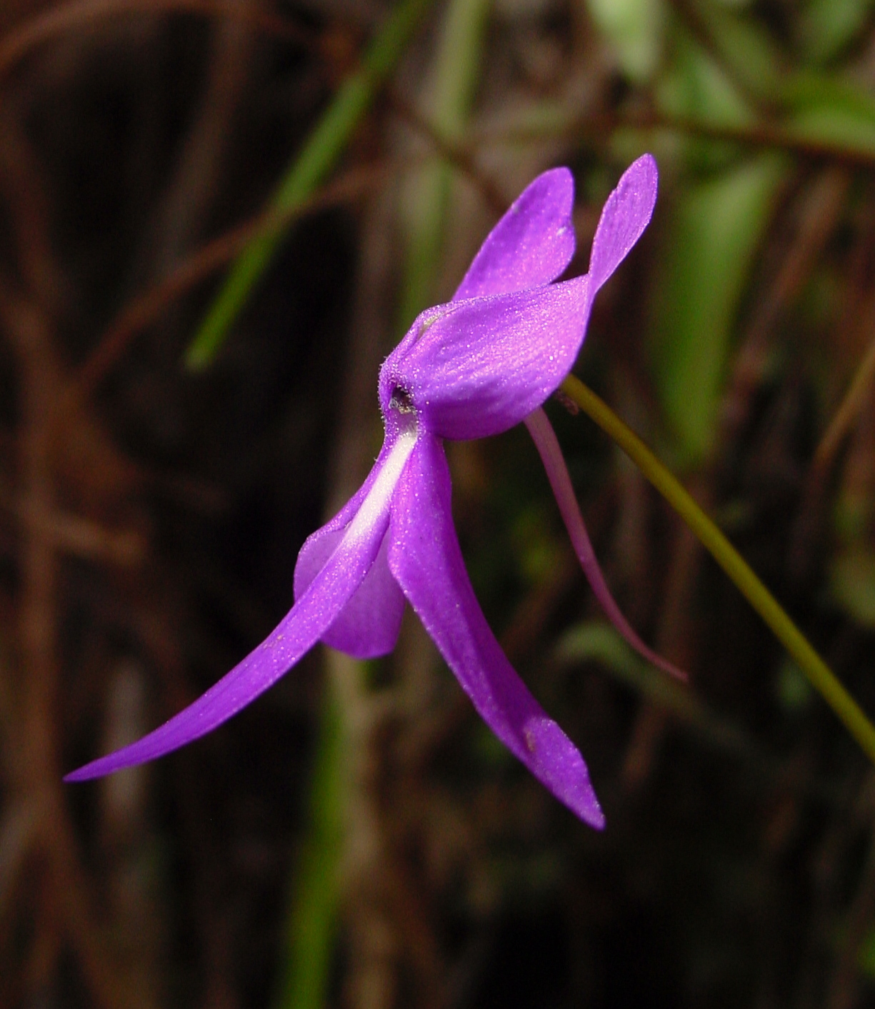 Pinguicula orchidioides flower. Oaxaca, Mexico.